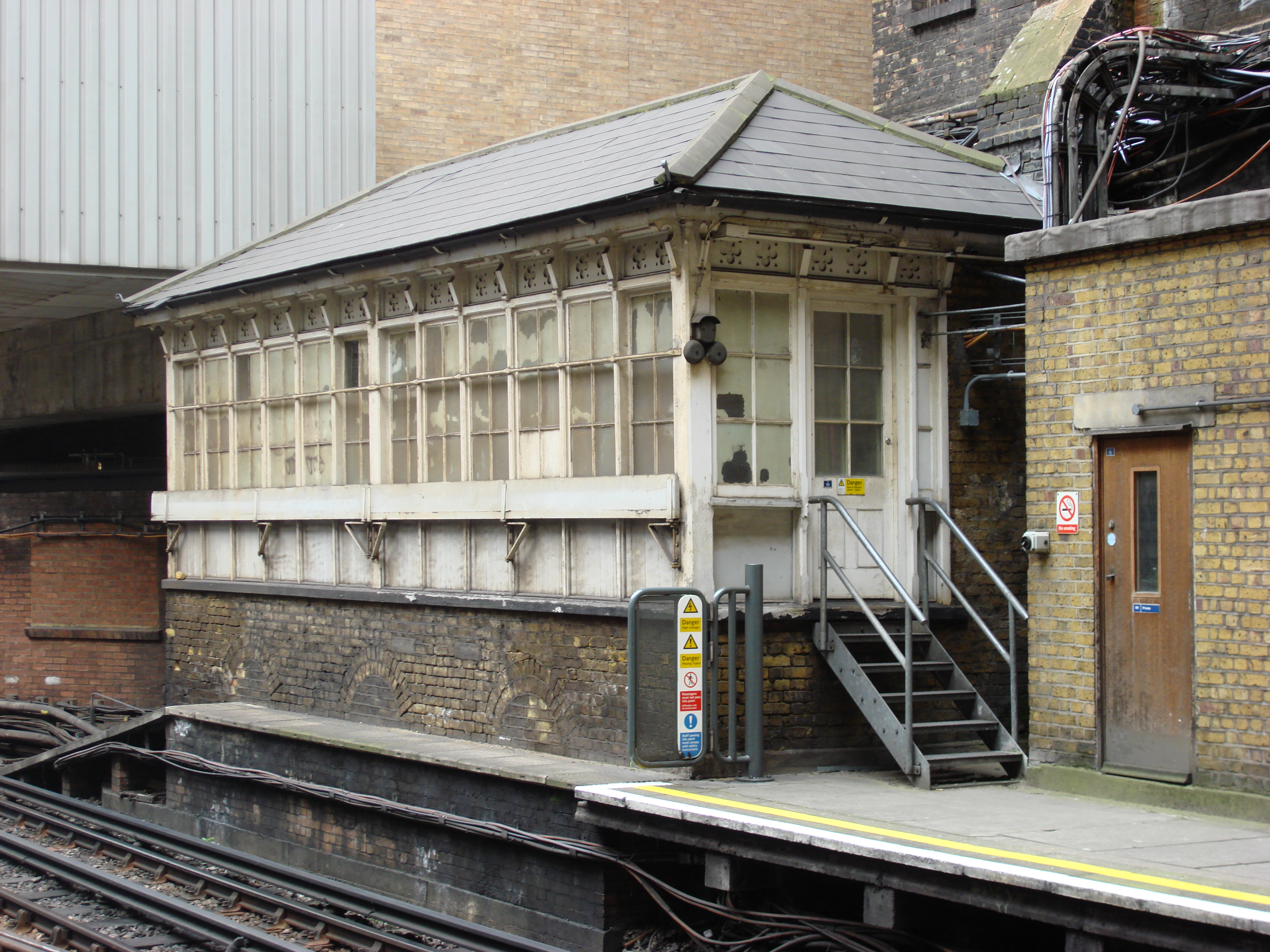 Former signal box on the subsurface lines at Liverpool Street Underground station